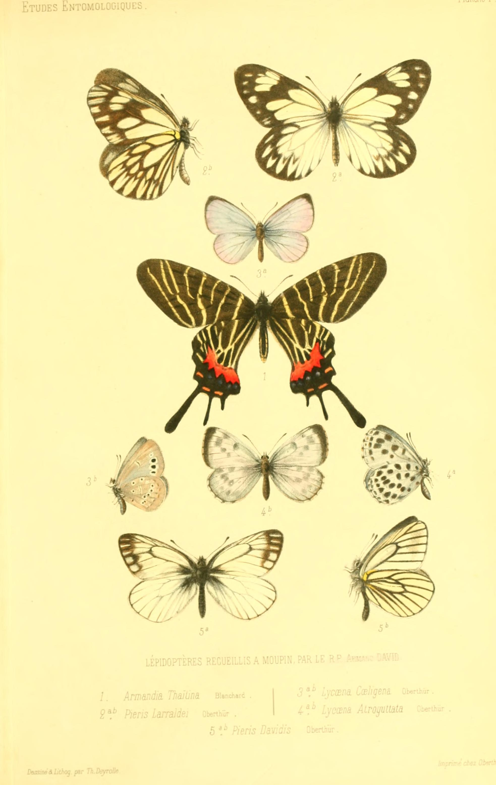 Butterflies collected at Muping (Baoxing County, Sichuan) by Père Armand David. Armandia Thaïtina [sic] Blanchard = Bhutanitis thaidina thaidina (Blanchard, 1871), upperside Pieris Larraldei Oberthür = Aporia larraldei larraldei (Oberthür, 1876) (a: upperside, b: underside) Lycæna Cœligena Oberthür = Caerulea coeligena coeligena (Oberthür, 1876), ♂ (a: upperside, b: underside) Lycæna Atroguttata Oberthür = Phengaris atroguttata atroguttata (Oberthür, 1876), ♂ (a: underside, b: upperside) Pieris Davidis Oberthür = Sinopieris davidis davidis (Oberthür, 1876) (a: upperside, b: underside)